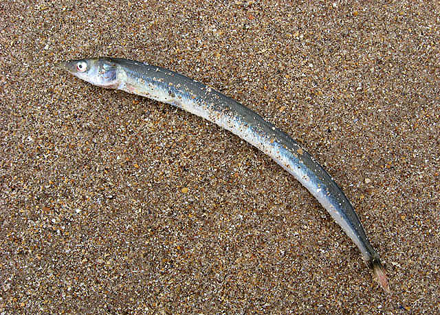 A sand eel at Belhaven Bay